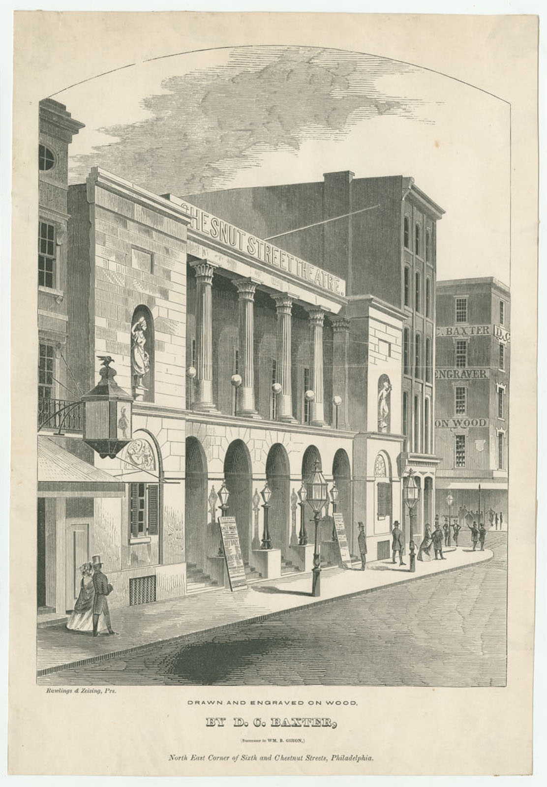 View of the second building of the theater, built 1820-1822 after the designs of William Strickland, Pedestrians walk on the sidewalk and read playbills on display. Also shows partial views of neighboring buildings, including Hart's Building owned by prominent Jewish publisher and philanthropist, Abraham Hart, erected 1848 (537-539 Chestnut). A gas light with a shade illustrated with a dancer adorns the Melodeon (611-613 Chestnut) and signage advertising D. C. Baxter, engraver on wood, is partially visible on Hart's Building. Theater razed 1856.